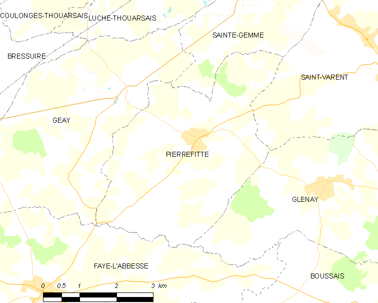 Map of French municipality Pierrefitte